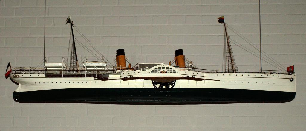 Hörnum (Sylt), Slesvic-Holstein (Germany): church, votive ship, photo 2008